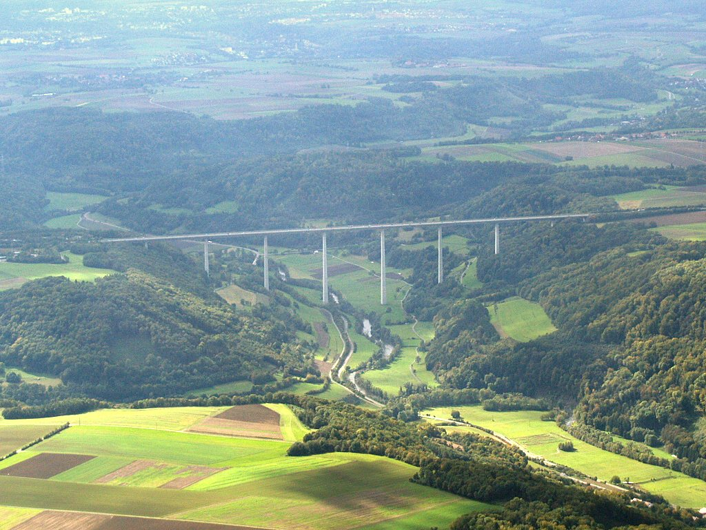 Aerial image of Germany's tallest motorway bridge spanning the Kocher valley between Geislingen and Braunsbach for thne A6. View from the North, against the river's course. In the foreground coming from the left the valley of the Kocher tributary Grimmbach. In the middle the section of the Kocher valley called Kochereck oriented WSW - ENE between the villages of Untermünkheim and Geislingen. At the left border, almost covered by the riegel adjacent to the left embankment of the bridge, the tributary river Bühler's valley coming from SE. In the top middle, the "Haller Ebene" (plain of Schwäbisch Hall) and the city of Schwäbisch Hall in the depression further to the horizon